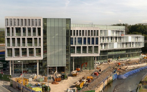 Number One Riverside, under construction, in Rochdale, Greater Manchester, England.